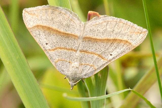 Petrophora chlorosata from Commanster, Belgian High Ardennes .